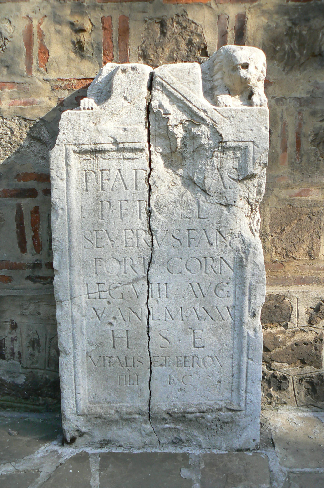 An exhibit in the Lapidarium in front of the National Archeological Museum in Sofia, Bulgaria